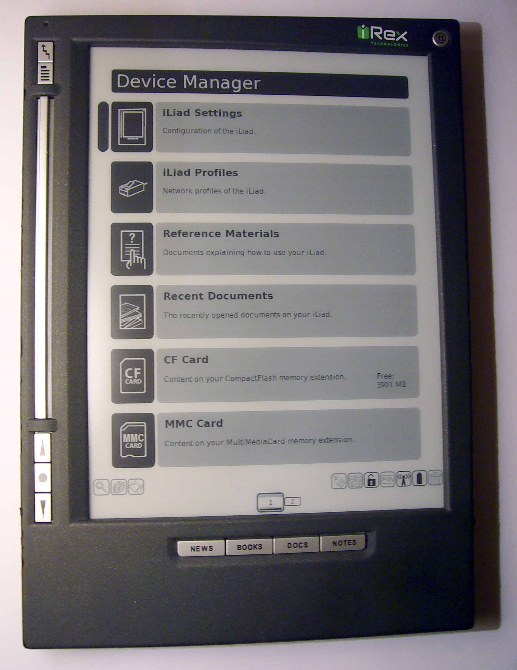 An Irex Iliad E-Ink reading device (version 2).